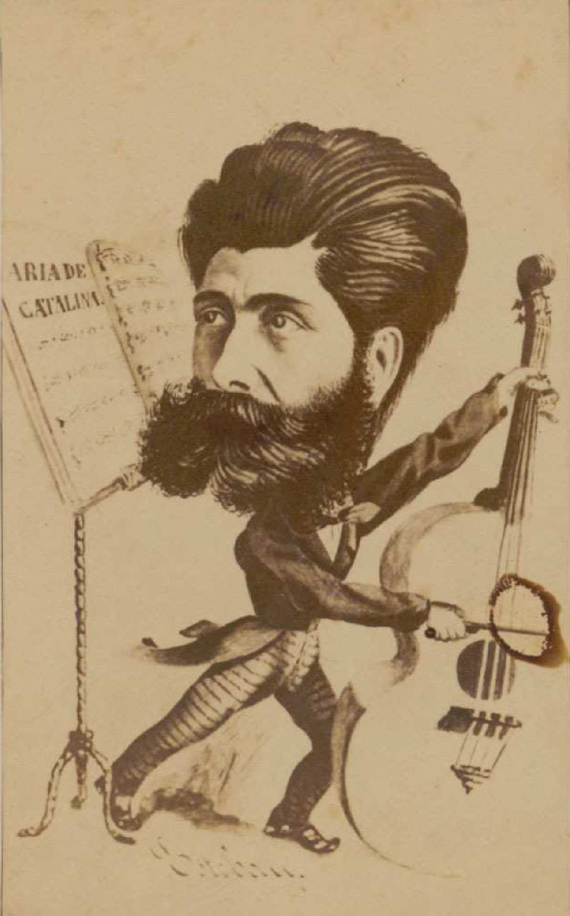 A caricature of Joaquín Gaztambide (1822-1870) drawn by Esteban. Catalina is a zarzuela by Gaztambide staged for the first time on 1854-10-23.